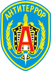 Emblem of the Alpha Group